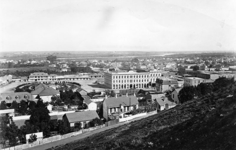 Los Angeles Plaza in 1876. — now called the "Old Plaza" in the El Pueblo de Los Angeles Plaza Historic District. The Pico House dominates the right side, the left side would go onto Olvera Street, the photo is taken from Fort Moore Hill, which was the site of historic Fort Moore.